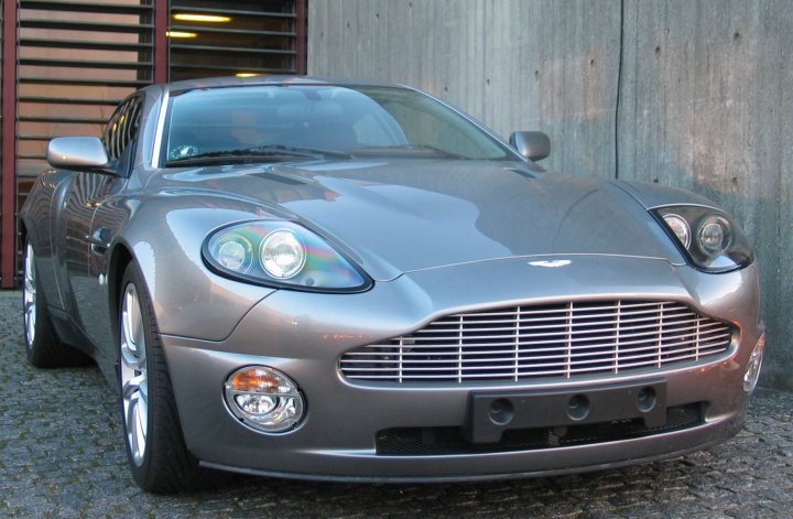 Aston Martin V12 Vanquish, 2005